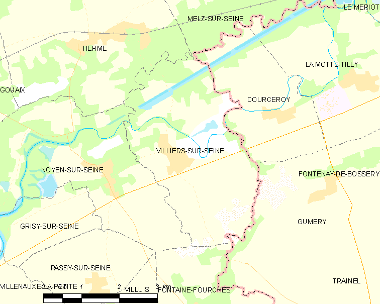 Map of French municipality Villiers-sur-Seine